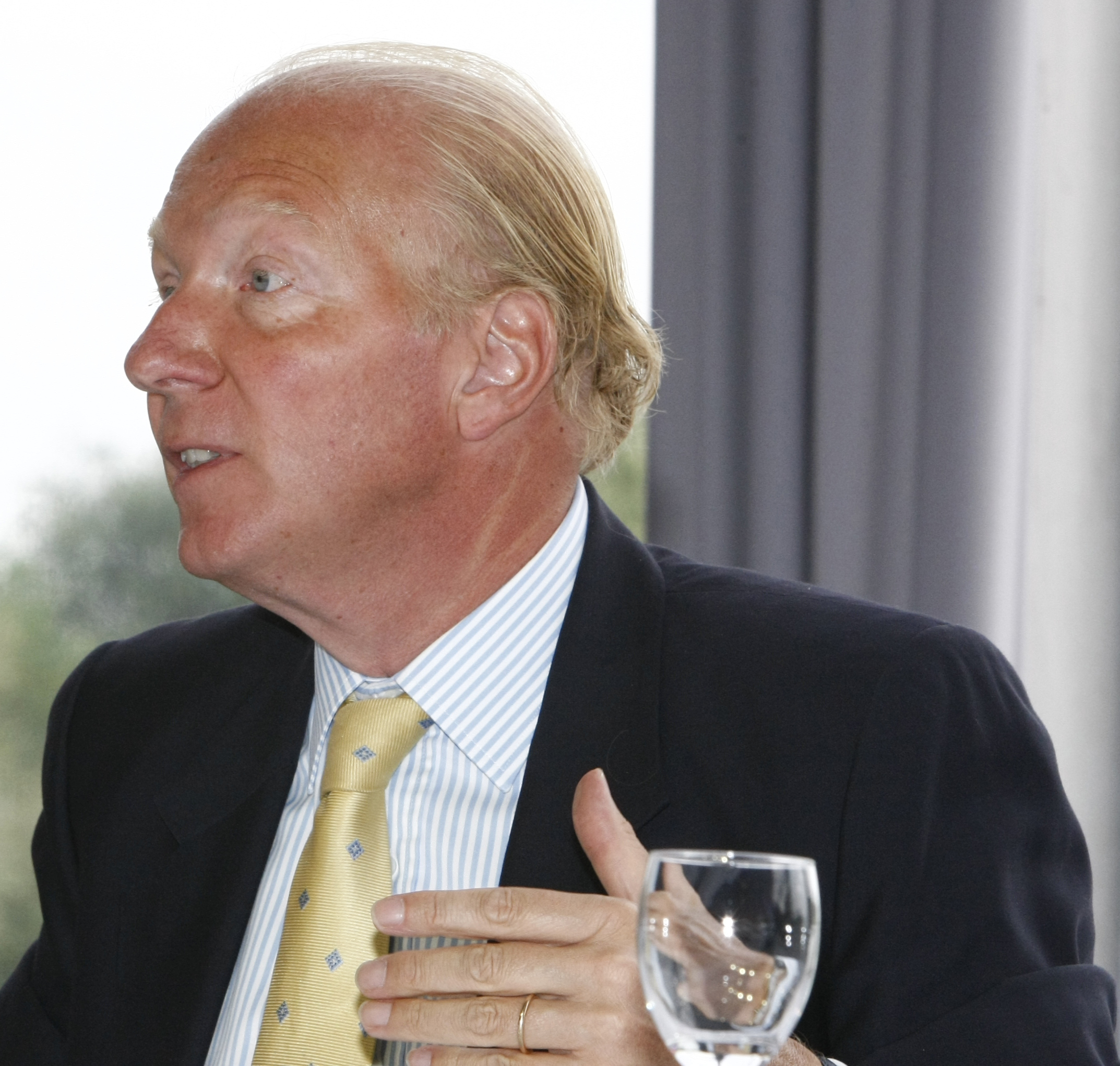 Brice Hortefeux, a French politician and Minister